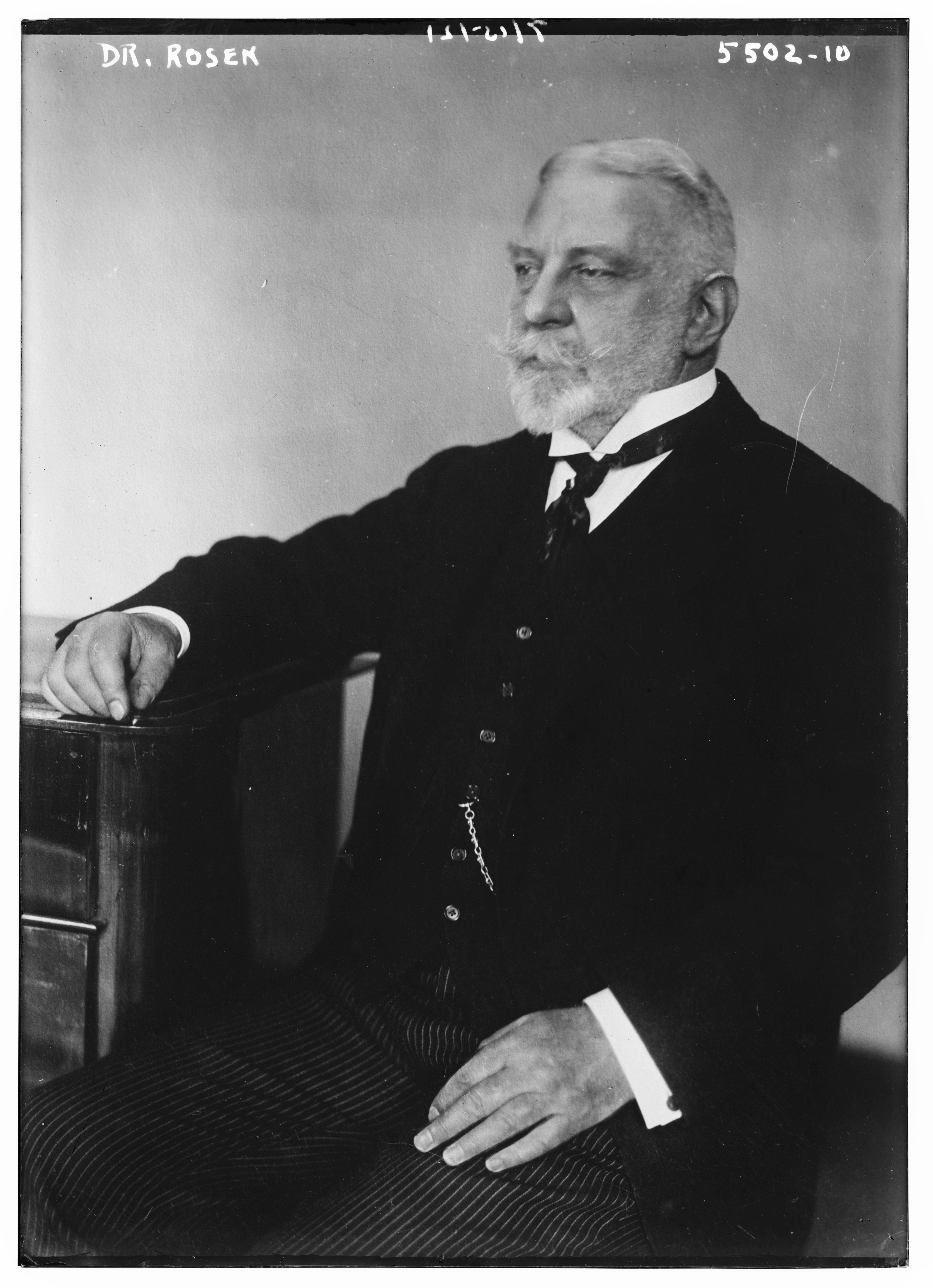 Title: Dr. Rosen Abstract/medium: 1 negative : glass ; 5 x 7 in. or smaller.